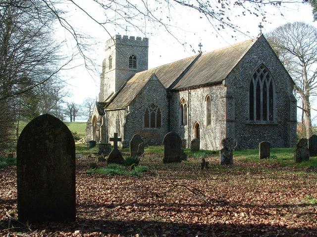 St. Mary's Anmer St. Mary's church, Anmer, Norfolk. For more information